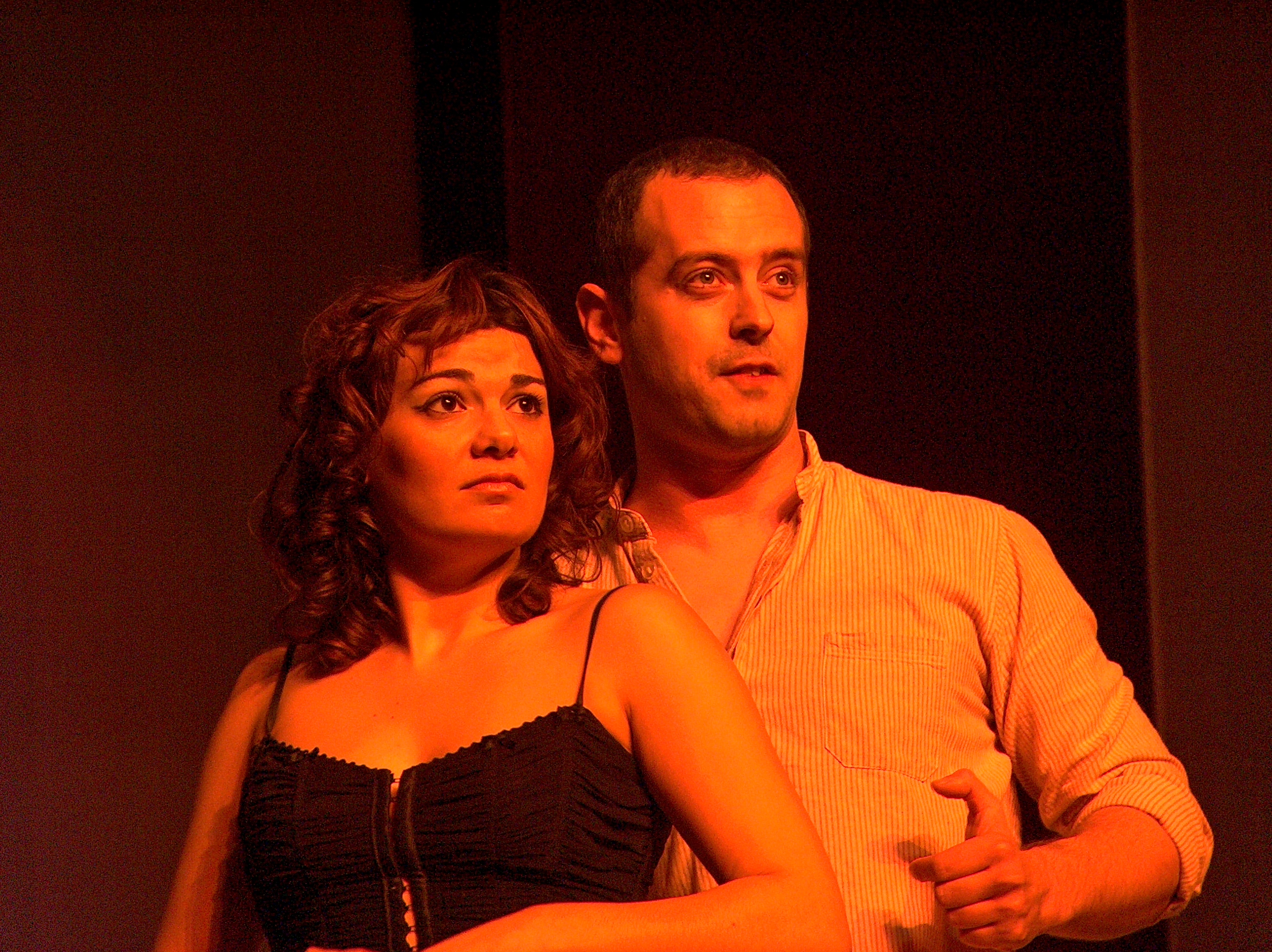 Theofilos association don Juan stage play